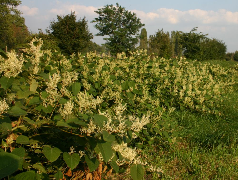 Fallopia sachalinensis in Nagycenk, Hungary